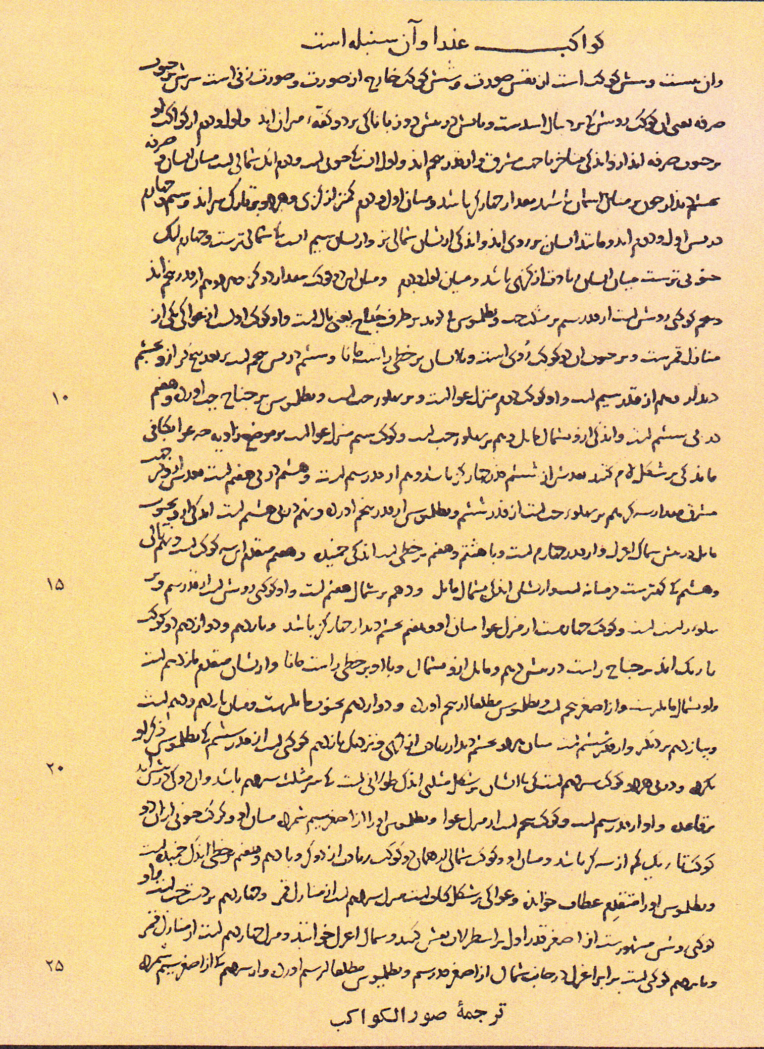 page of persian translation of the book Soaver-e-Kavakeb, 6. Cent.